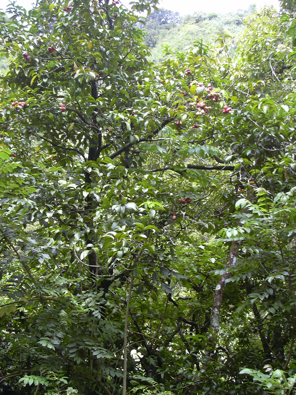 Syzygium malaccense (habit). Location: Maui, Hana Hwy